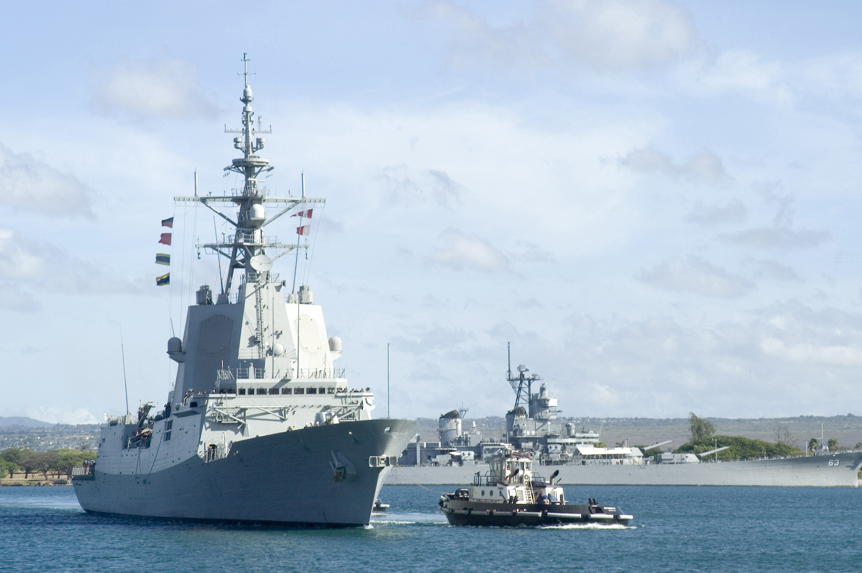 Spanish navy frigate Méndez Núñez (F104) passes decommissioned battleship USS Missouri (BB 63) as it pulls into Pearl Harbor, Hawaii, June 23, 2007, for a port visit.